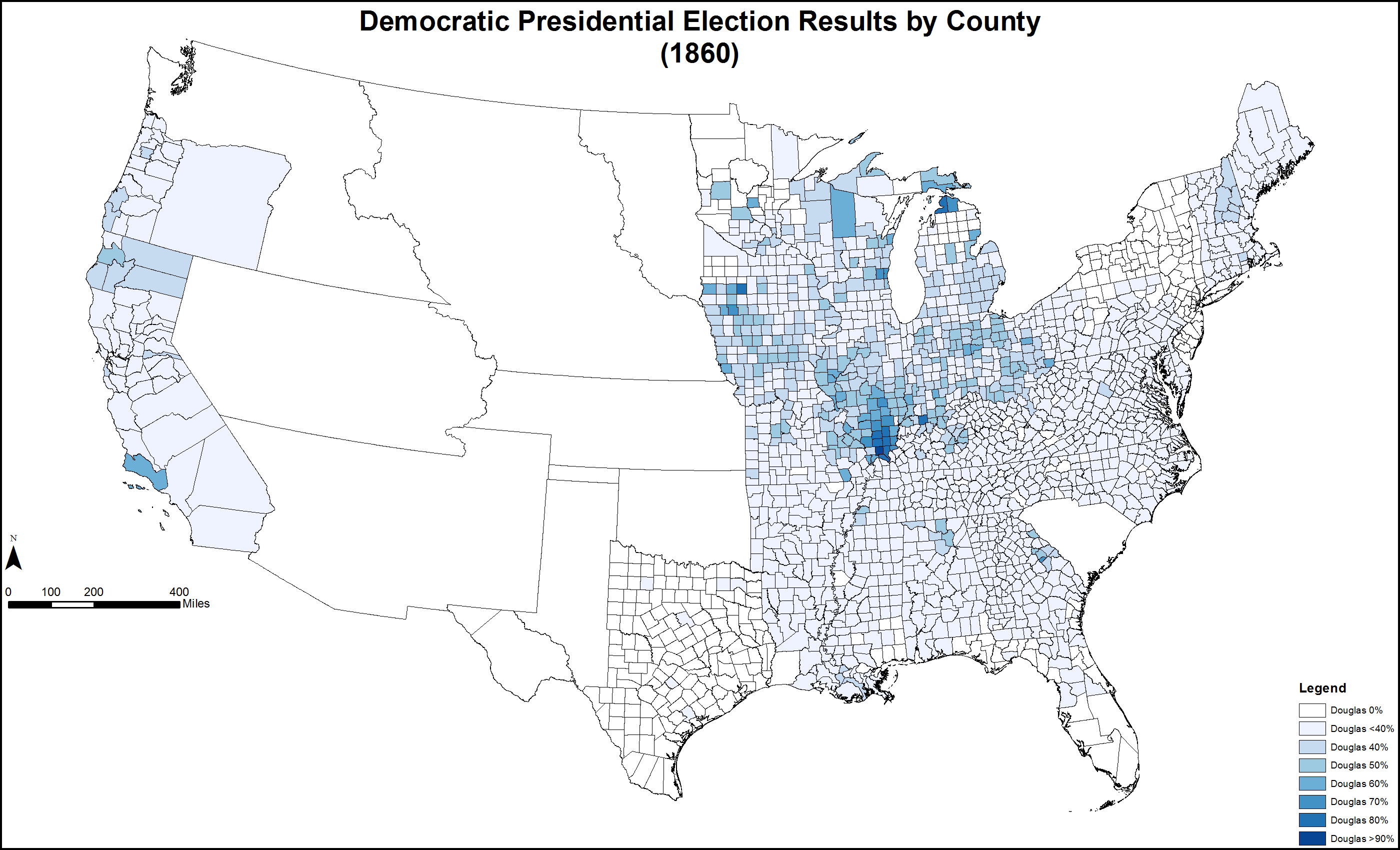 Northern Democratic presidential election results by county (1860). Colors based on Colorbrewer 2.0.